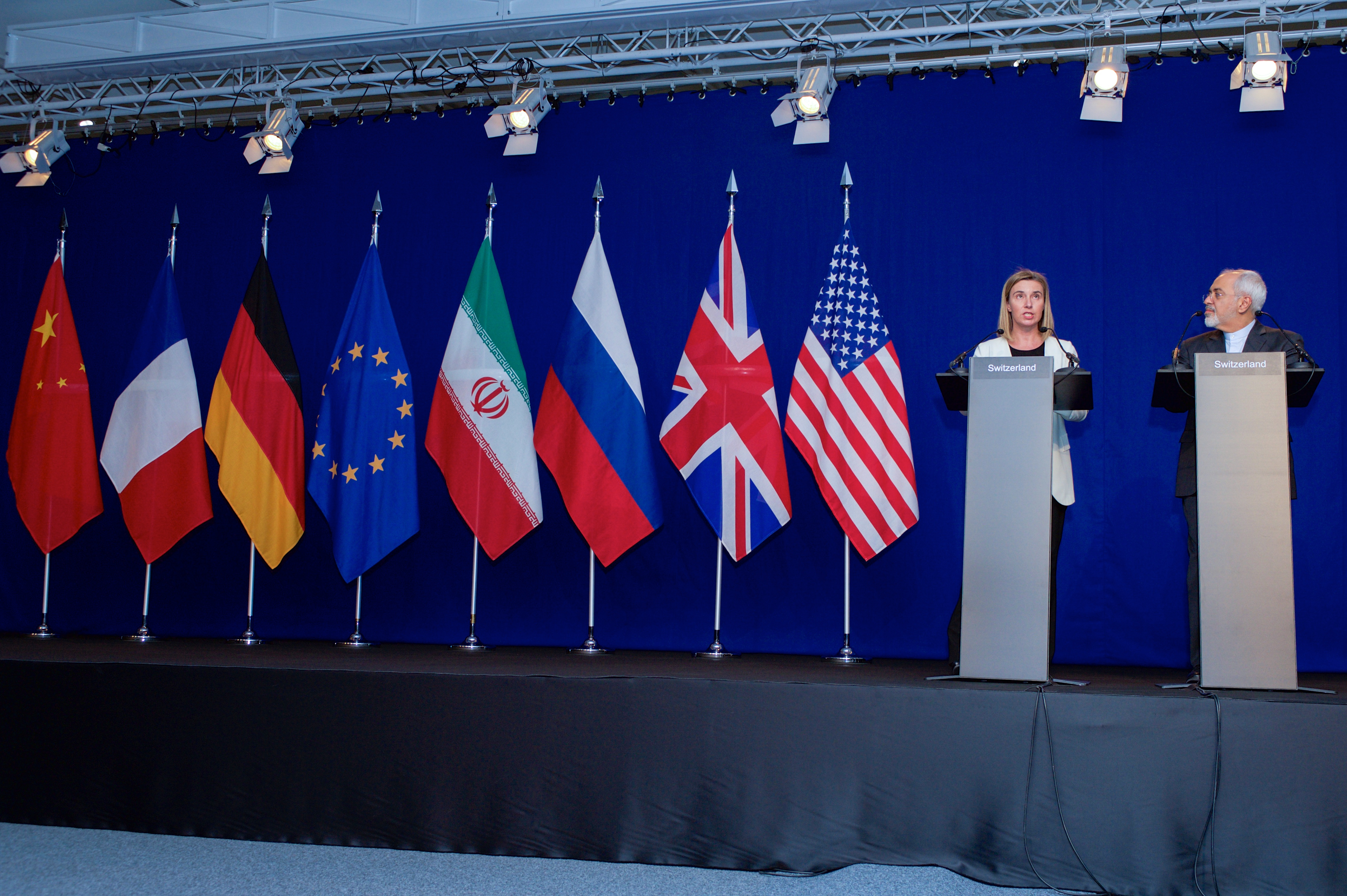 European Union High Representative for Foreign Affairs Federica Mogherini and Iranian Foreign Minister Javad Zarif address reporters, following negotiations between the P5+1 member nations and Iranian officials about the negotiations on Iran nuclear deal framework, in the "Forum Rolex" auditorium of the EPFL Learning Centre, Écublens-Lausanne, Switzerland on 2 April 2015.